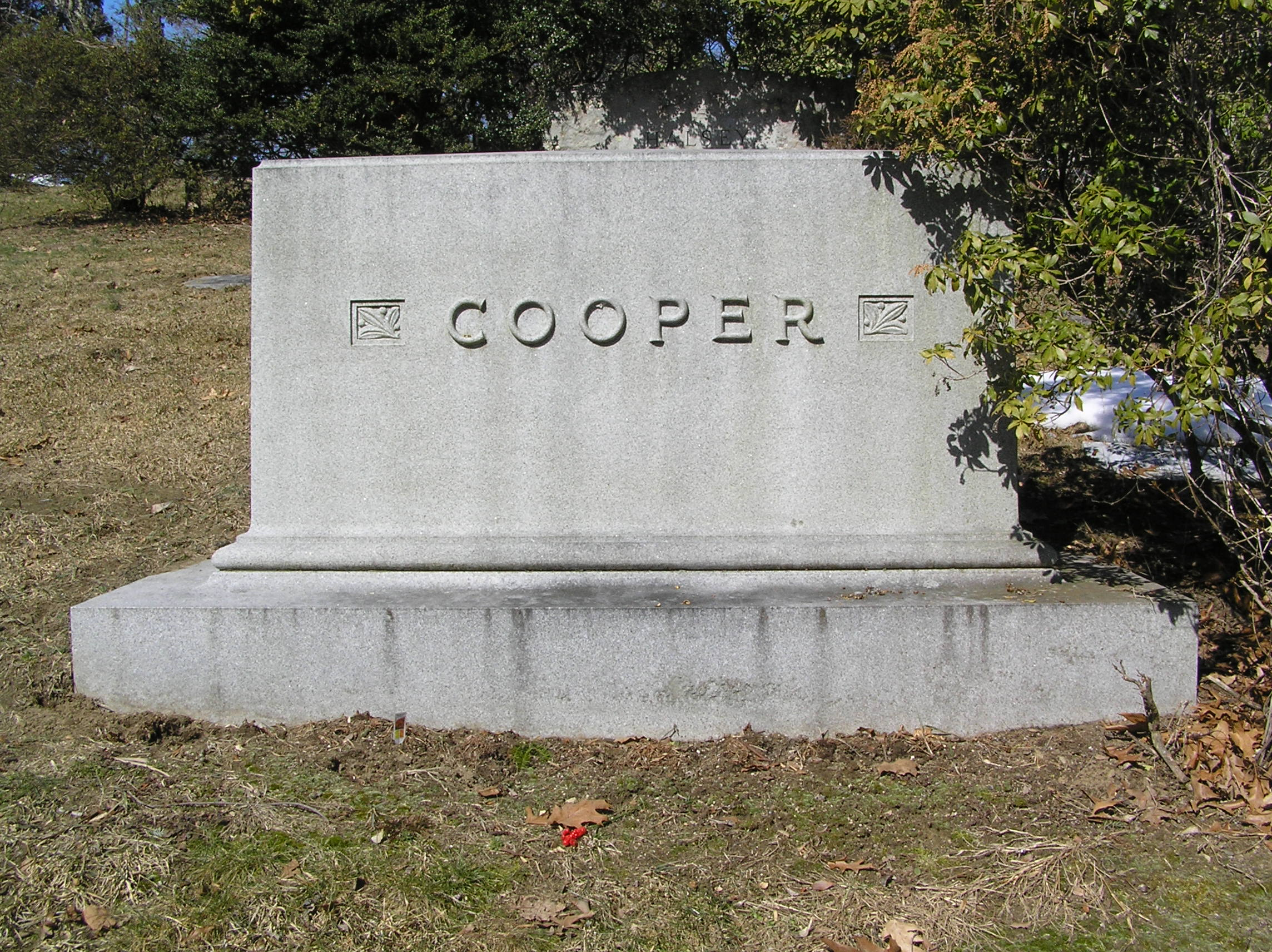 The gravesite of Kent Cooper in Sleepy Hollow Cemetery